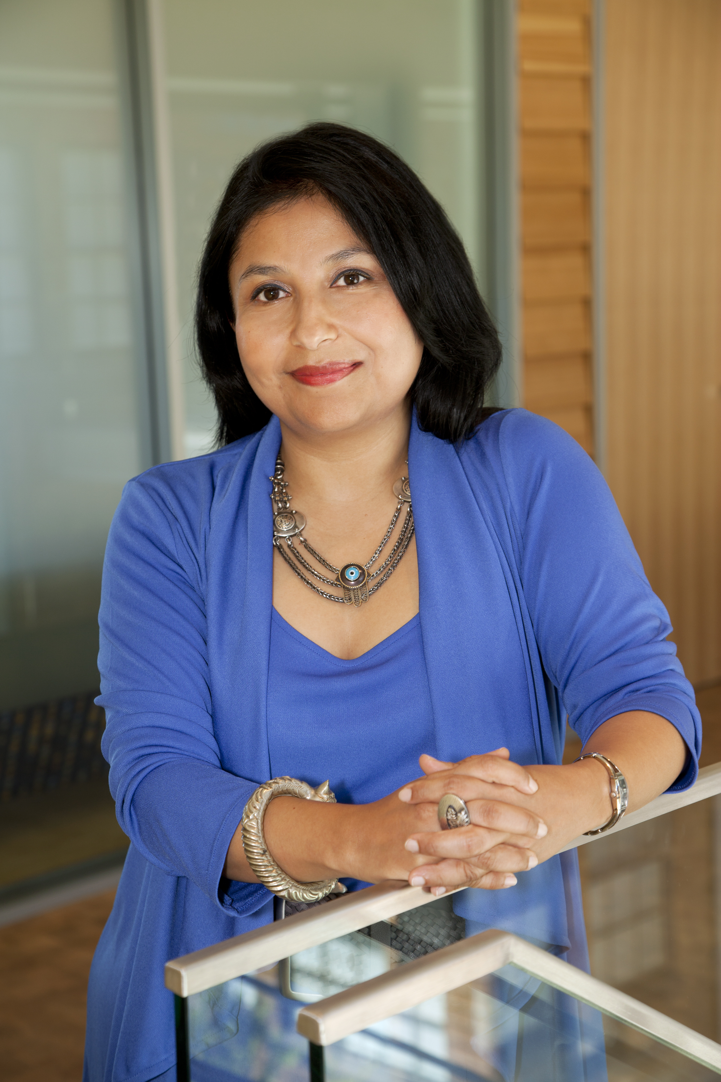 Photograph of Professor Ananya Roy